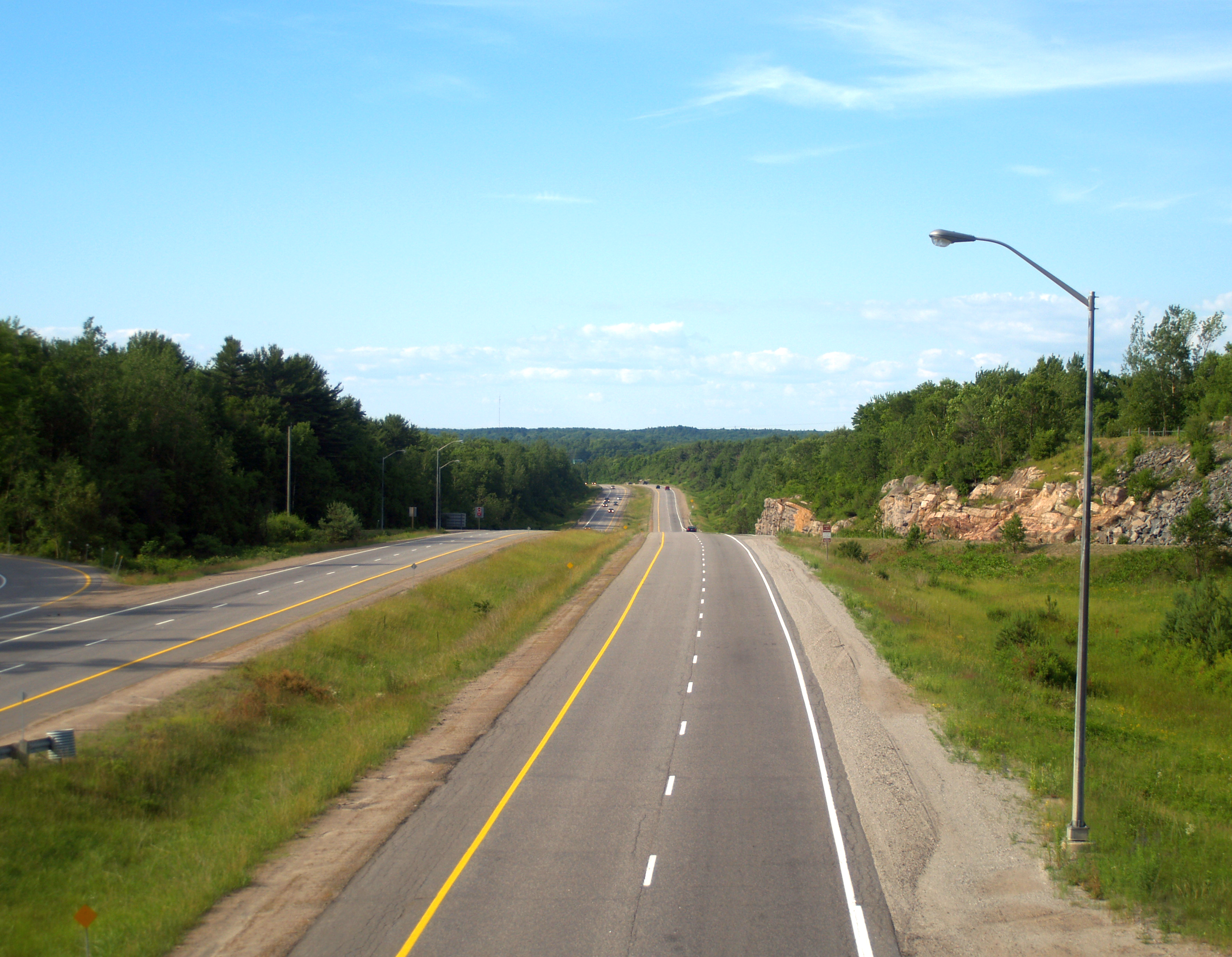 Highway 11 facing north, near Bracebridge, Ontario. Taken from Muskoka Falls Road overpass.